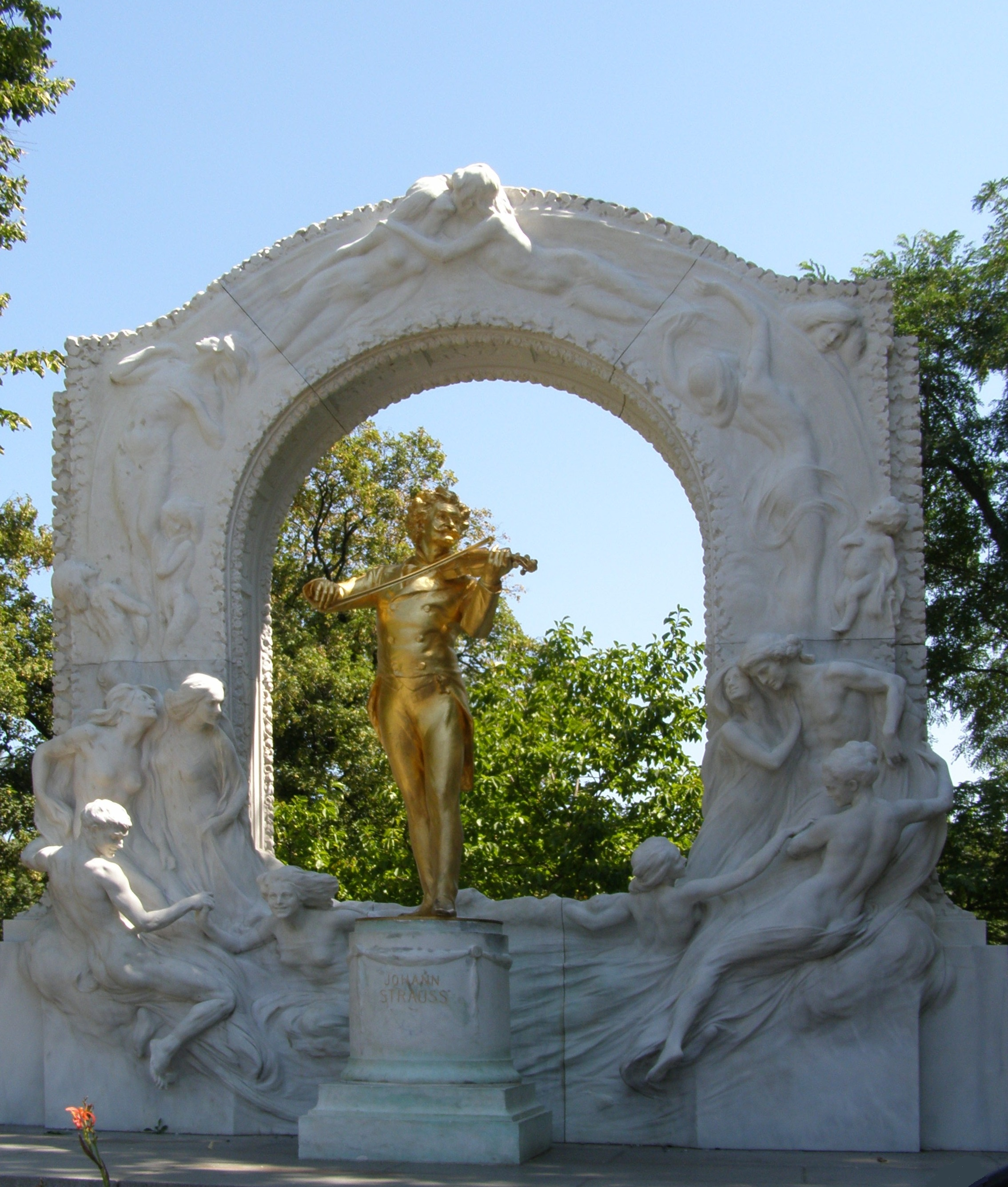 Johann Strauß (Sohn) monument